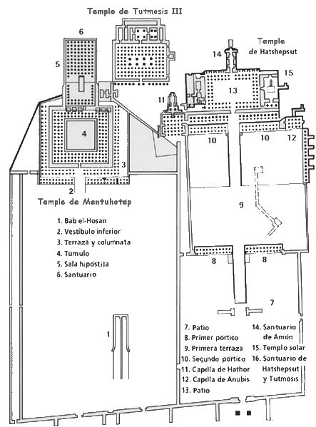 Deir el Bahari map